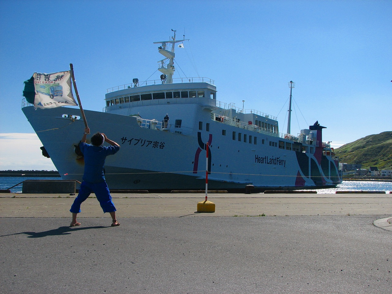 Momoiwa-so